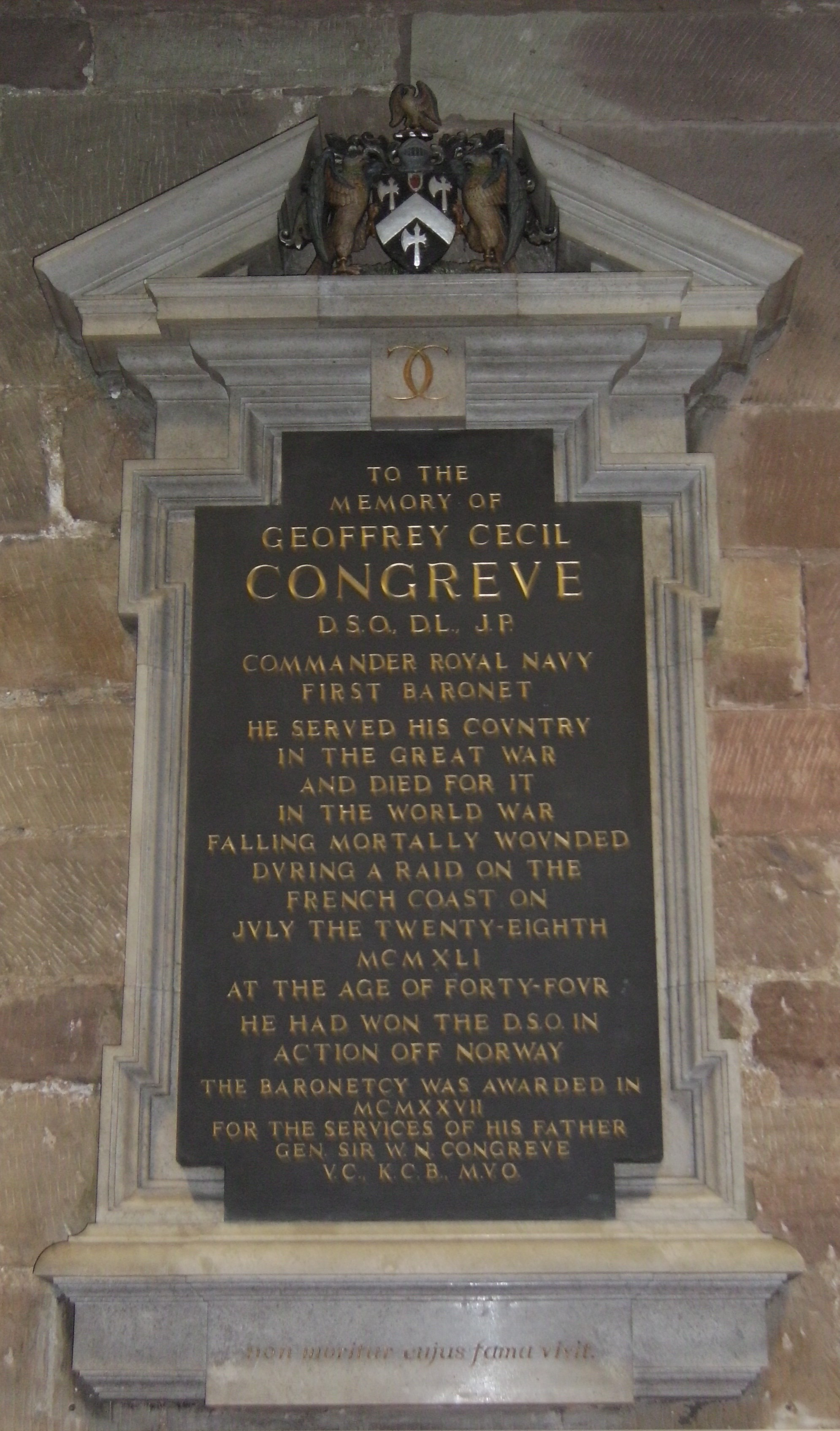 Penkridge, Staffordshire, St. Michael and All Angels Anglican parish church. Memorial to Geoffrey Congreve, died 1941.